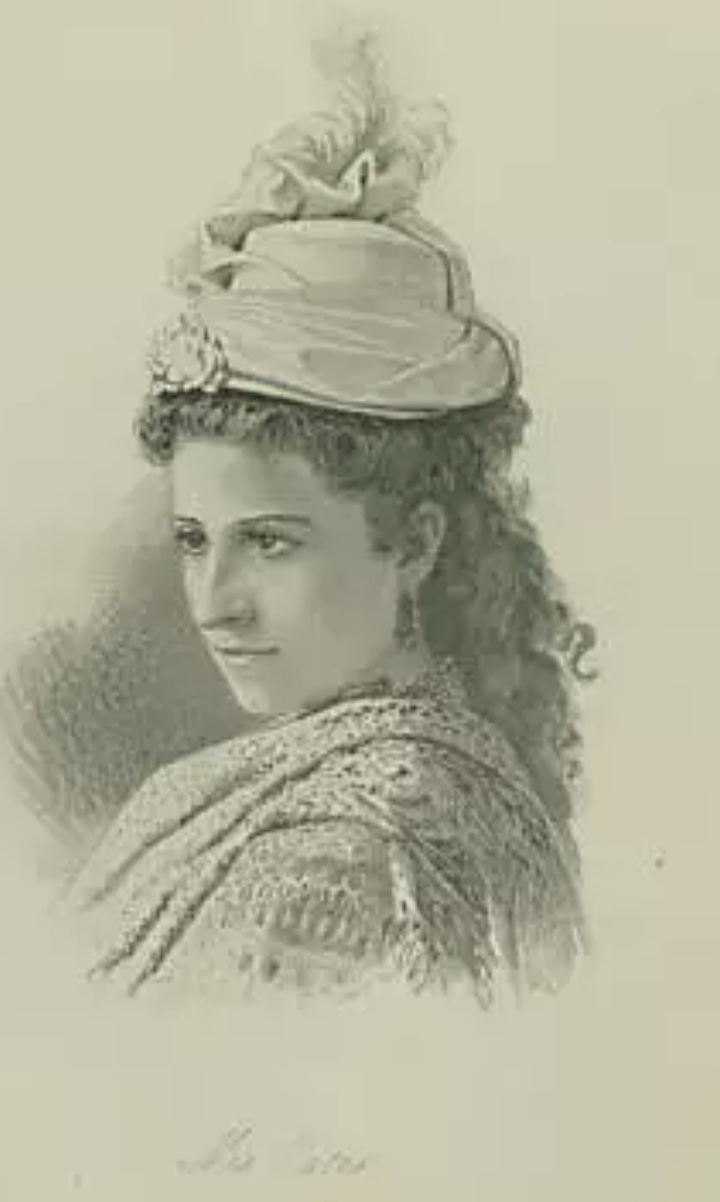 Image Type - Lithograph